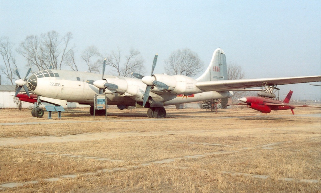 WuZhen-5 under the wing of an aircraft carrier.jpg